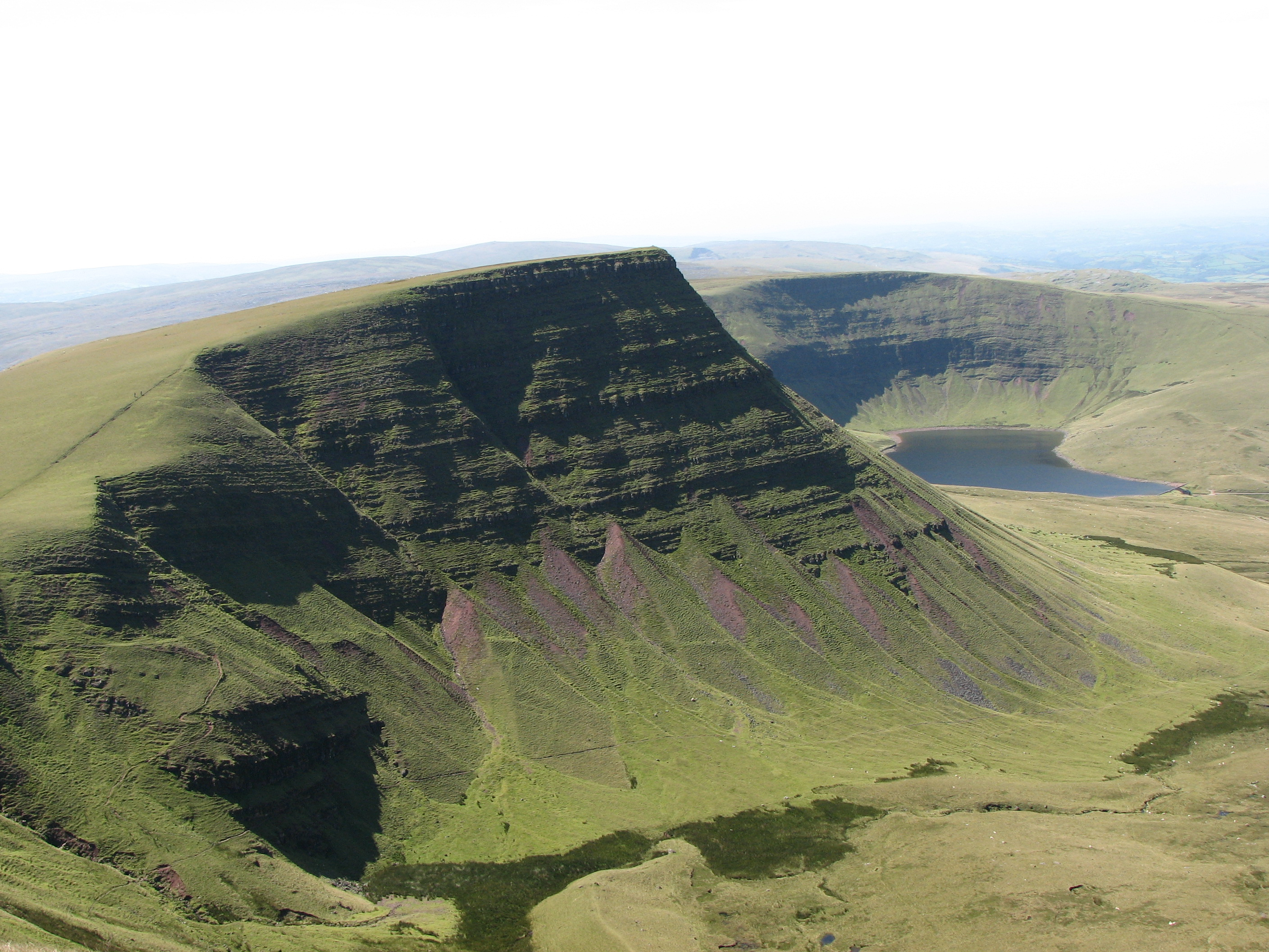 The lake comes into view behind Picws du